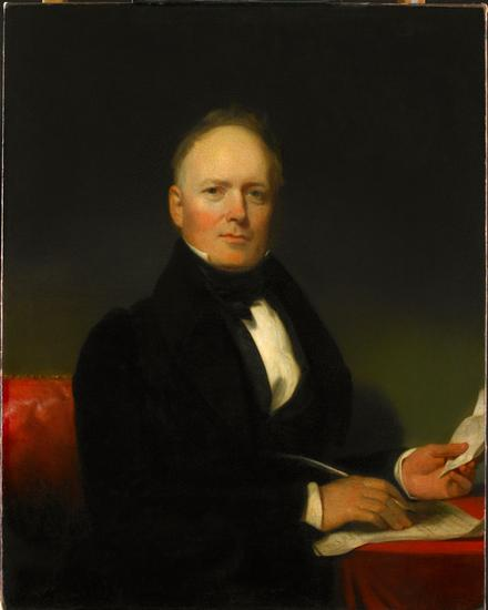 Samuel Rossiter Betts, New York Congressman and federal Judge.